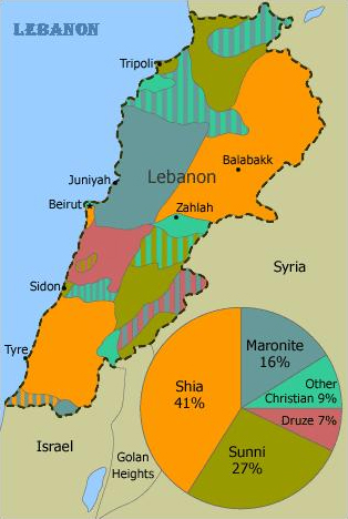 An approximation of the distribution of Lebanon's main religious groups, 1991.